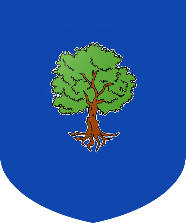 Alberenghi shield